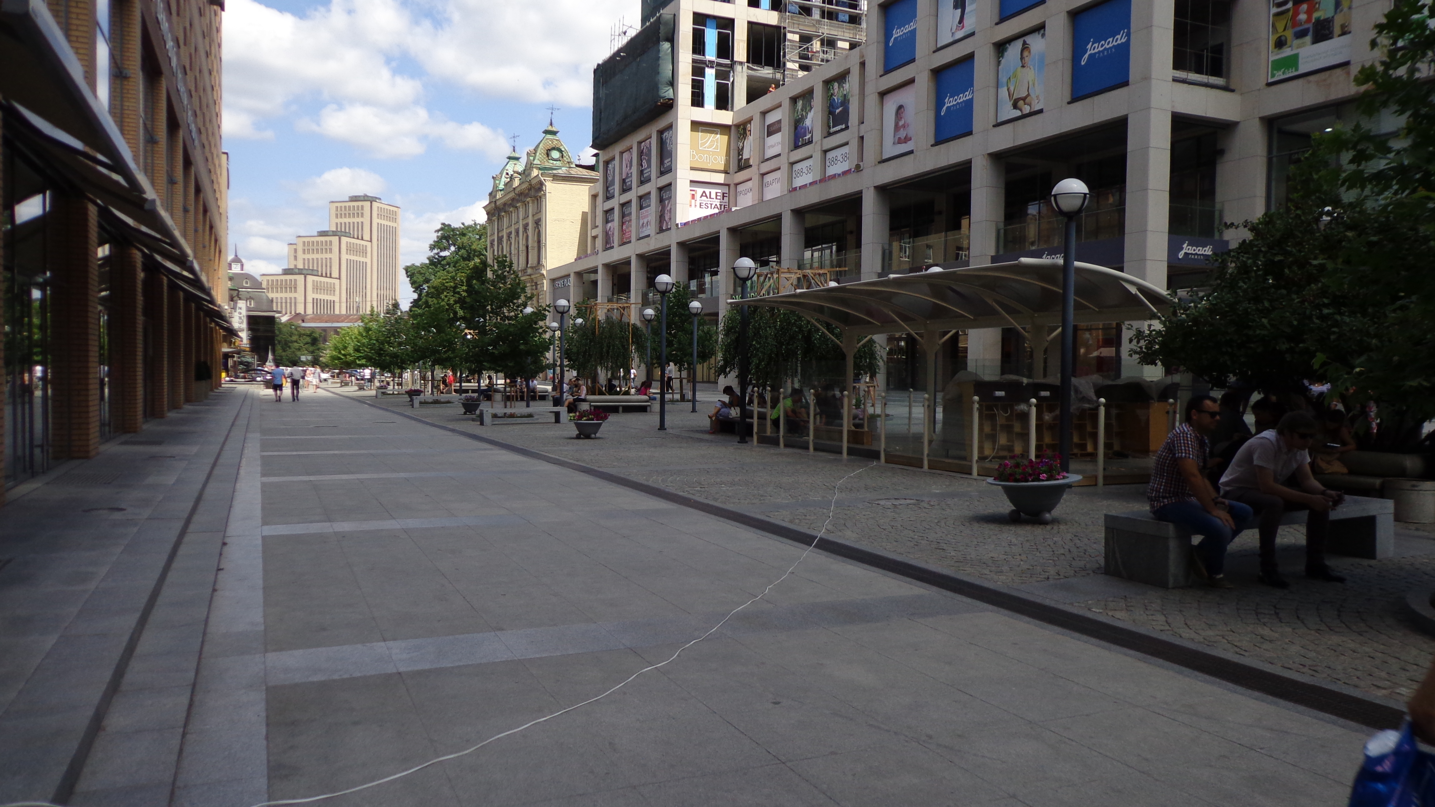 Catherine (, the great) Boulevard (Ekaterynoslavsky boulevard) Dnipropetrovsk